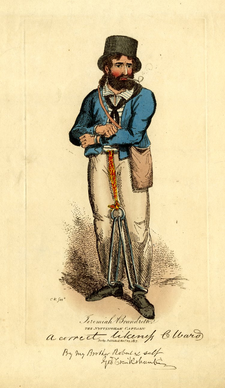 Jeremiah Brandreth, the Nottingham captain. Satirical Print. Below the title: "A correct likeness C Ward". 24 October 1817. Hand-coloured etching.